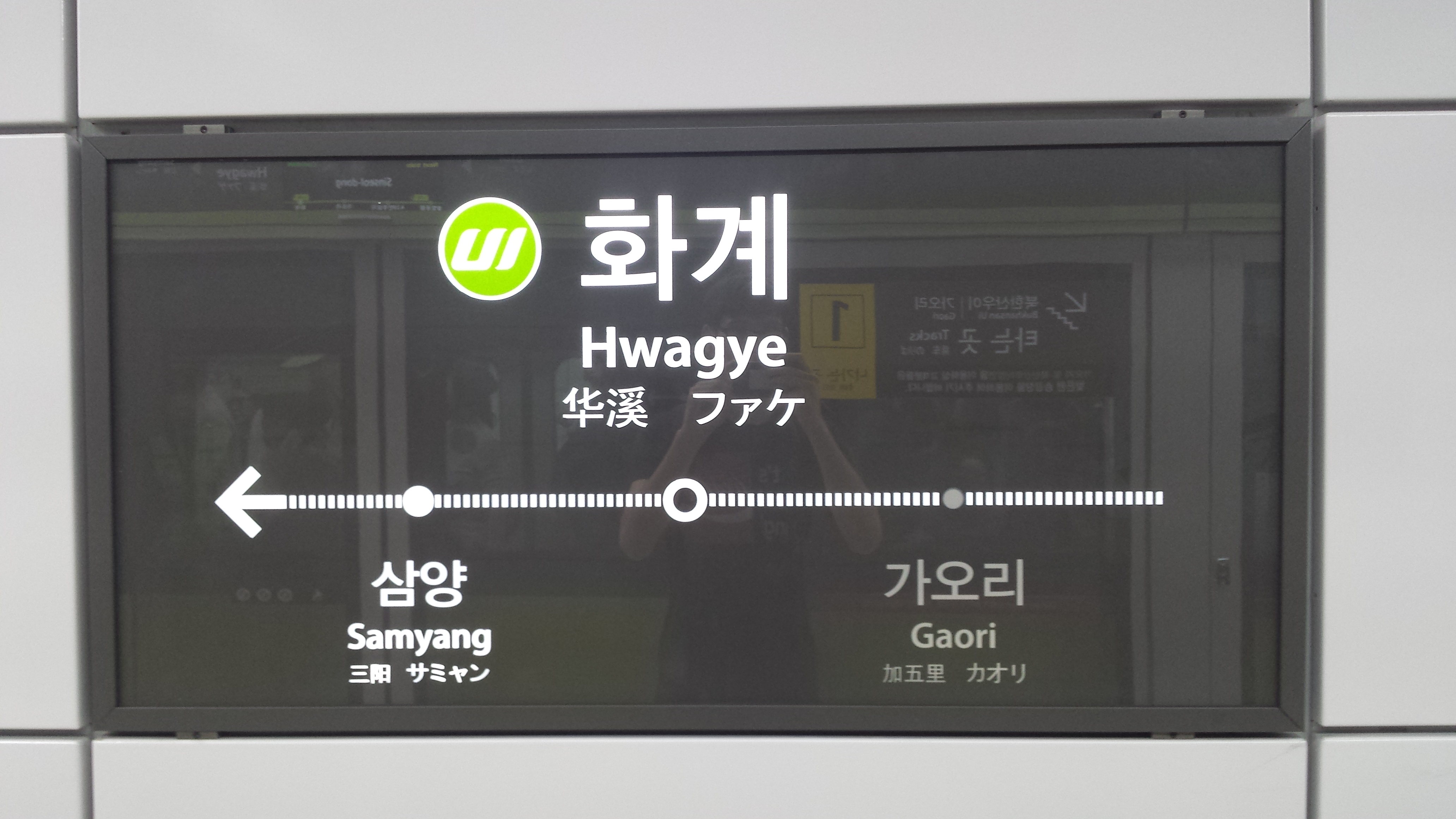 Hwagye station sign